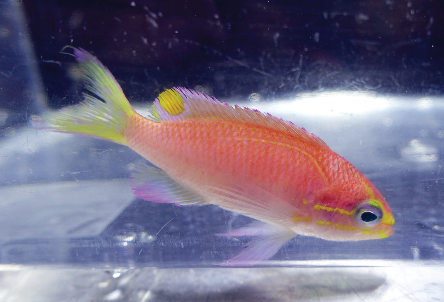 Holotype of Tosanoides obama shortly after collection, alive in a holding tank aboard the NOAA Ship Hi’ialakai. Photo by R. L. Pyle.